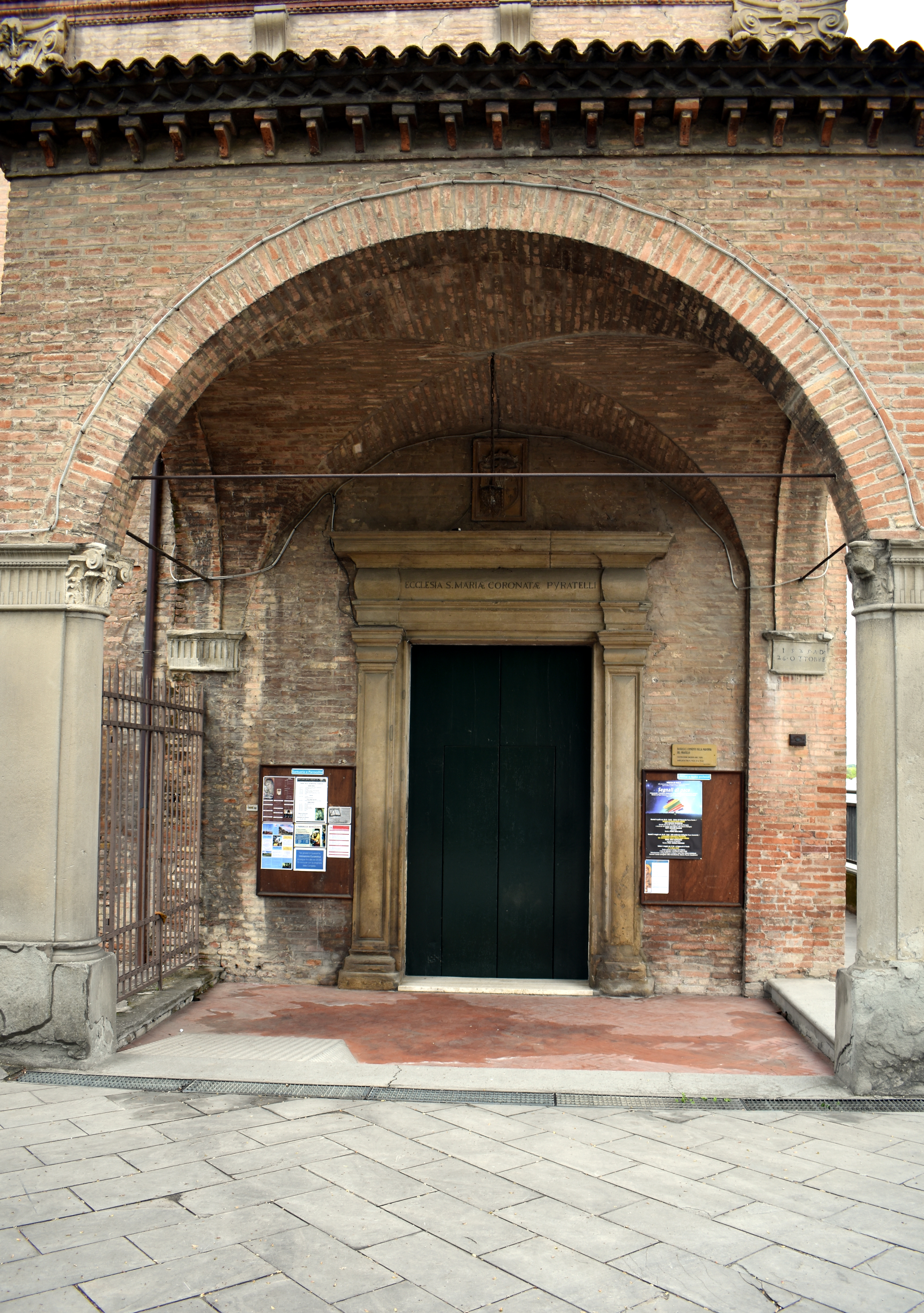 entrance, Basilica Santuario della Beata Vergine del Piratello, Imola; a plaque to the right of the door notes the date: 1525-AD-26-OTTOBRE